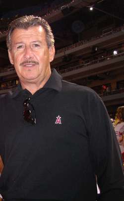 Arte Moreno in 2007